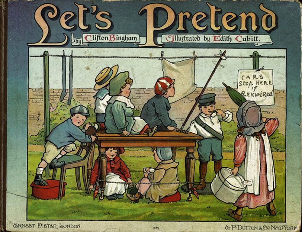 Let's pretend, verses by G. C. Bingham (1859-1913), illustrated by E. A. Cubitt, 1859.